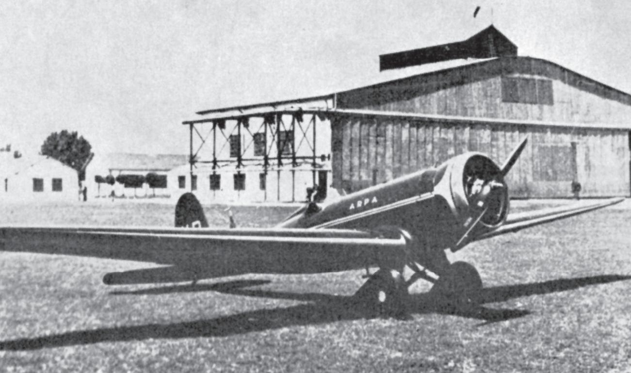 ICAR Universal Acrobatic plane at ARPA school, Băneasa Bucharest airport.